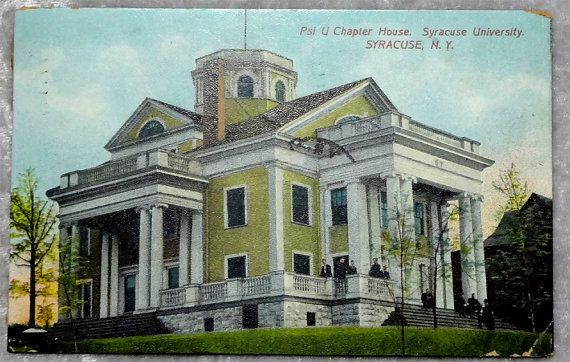 A postcard of the Pi Chapter House of the Psi Upsilon Fraternity.